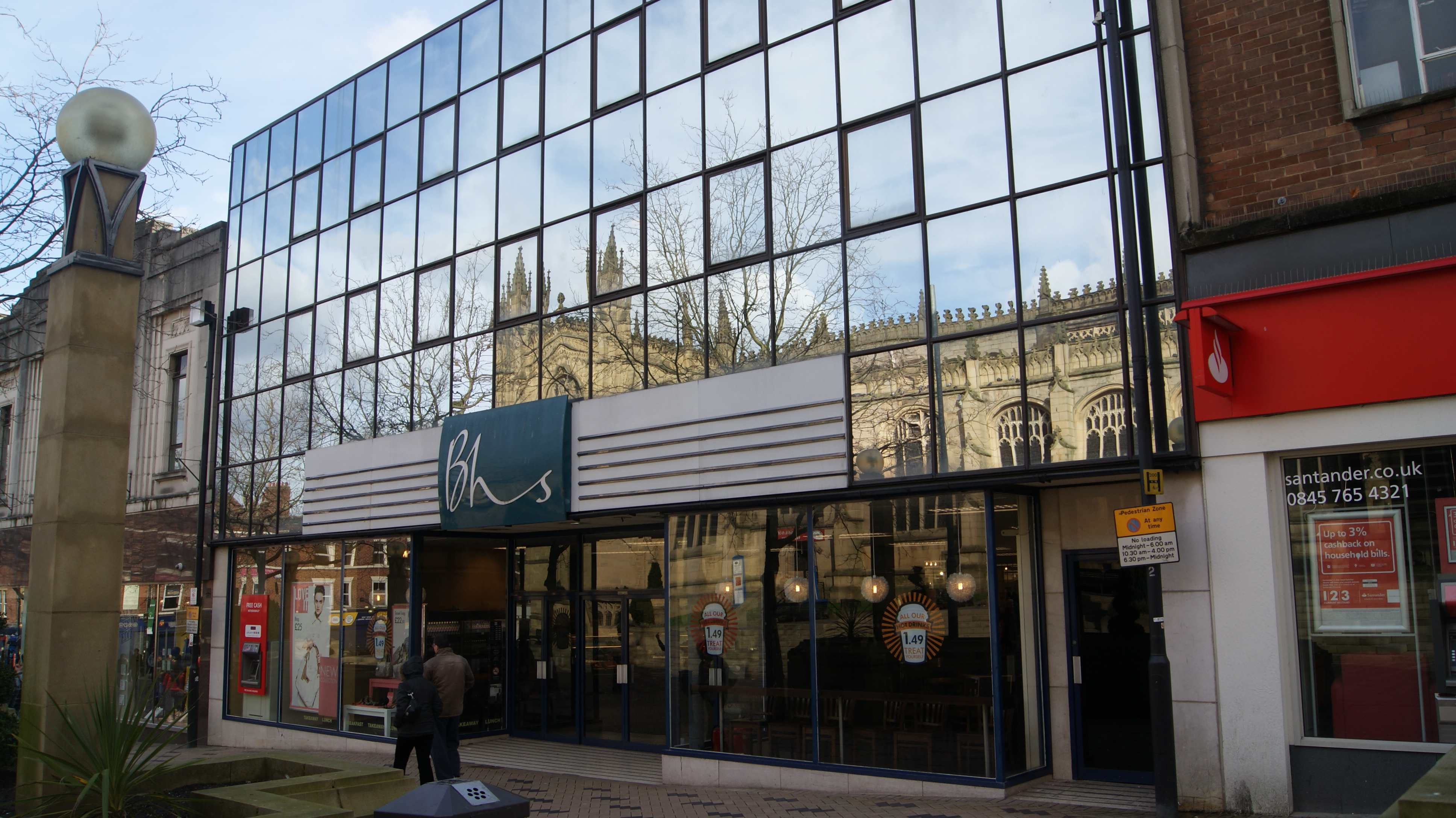 BHS, Kirkgate, Wakefield, West Yorkshire. Taken on the afternoon of Sunday the 10th of March 2013.